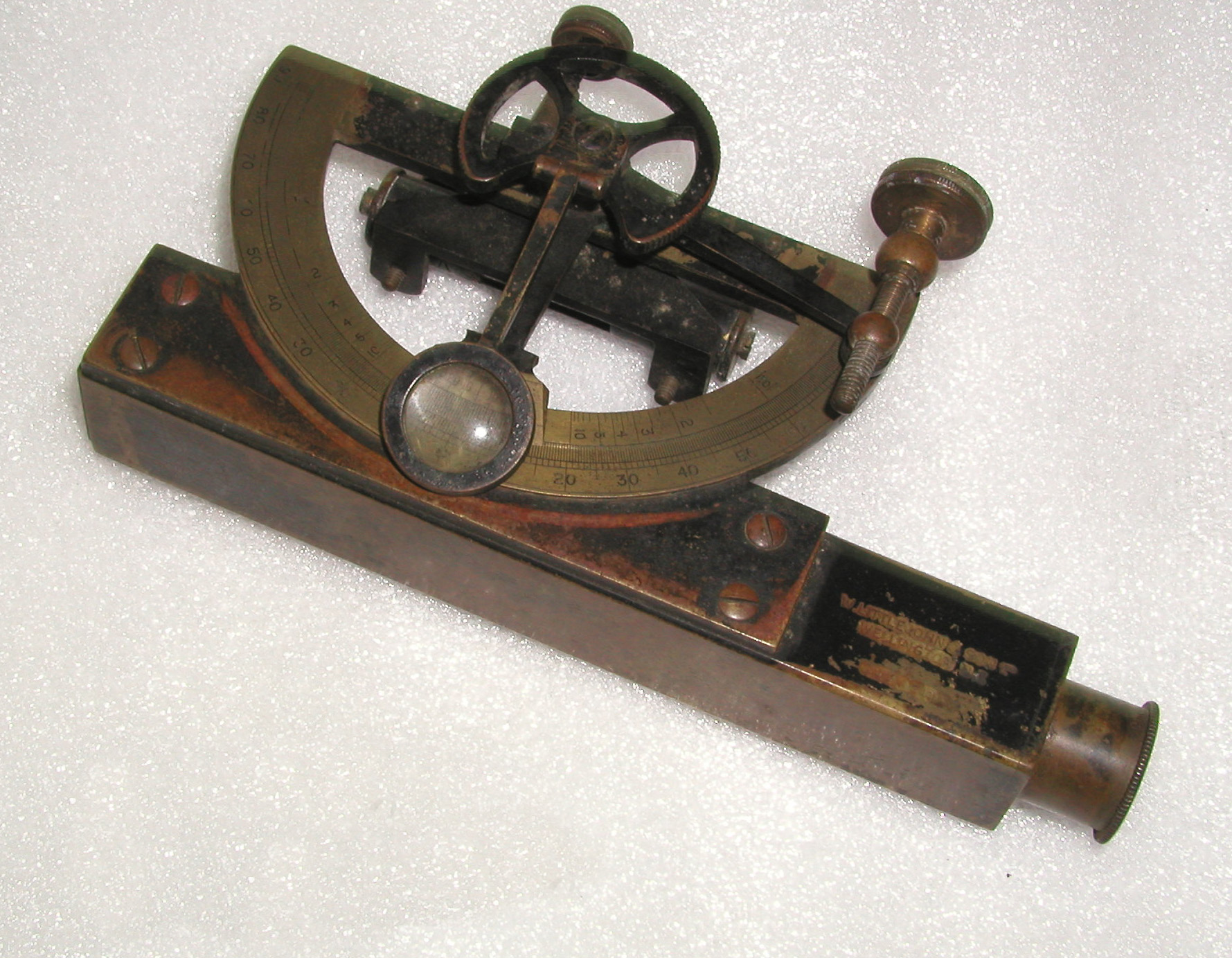 "brass theodolite, locality- England." (col.card)